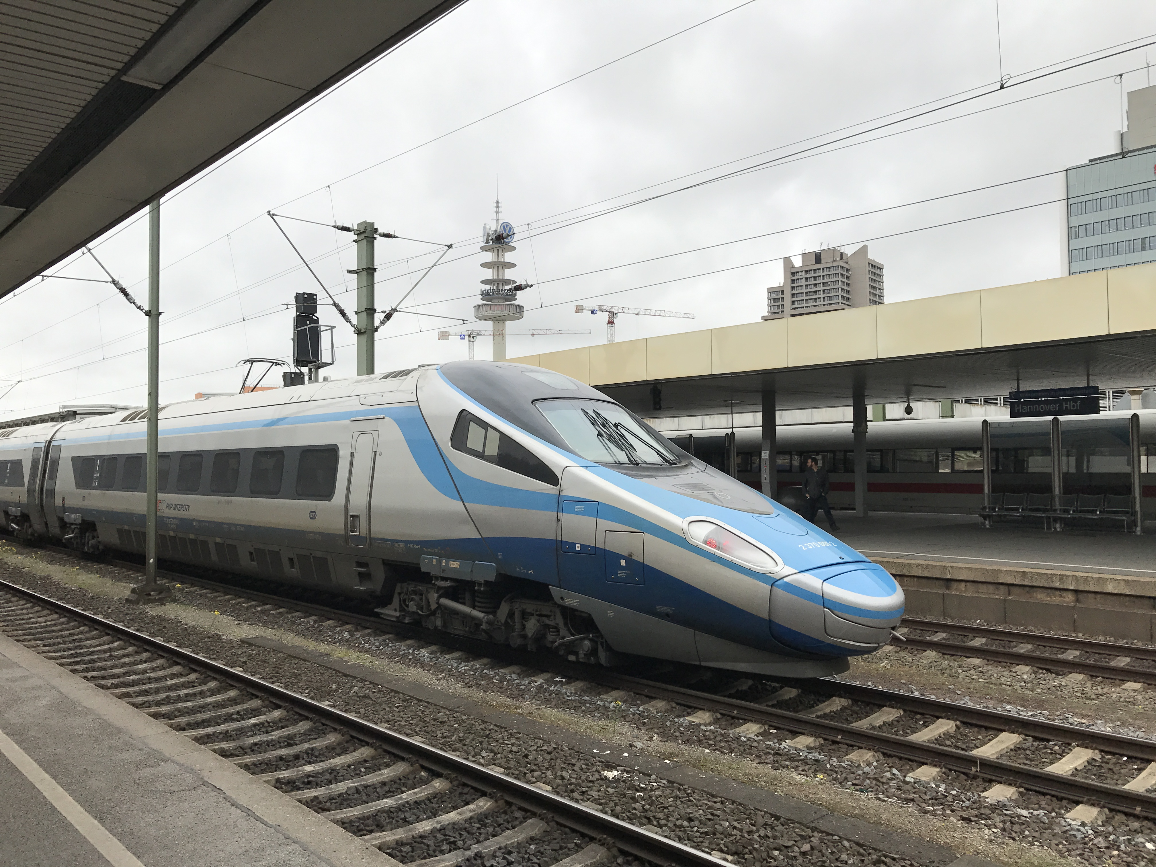 PKP InterCity ED250 series on test run in Germany (Hannover main station)